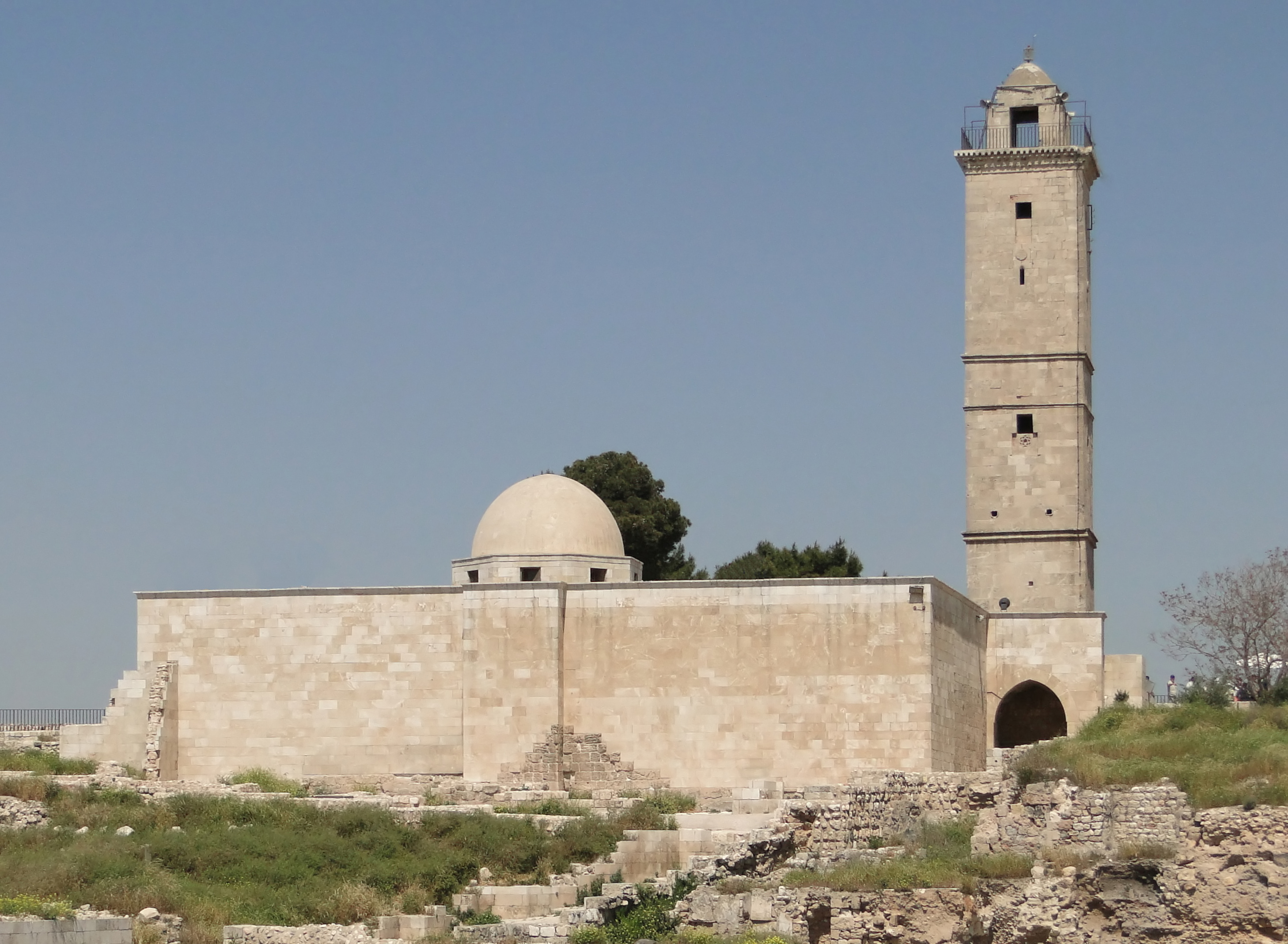 Great Mosque of the Citadel of Aleppo, Syria